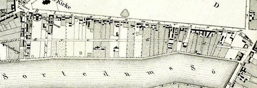 An early plan for the construction of Ryesgade across the bleaching ponds along Sortedam Lake in Copenhagen, Denmark.